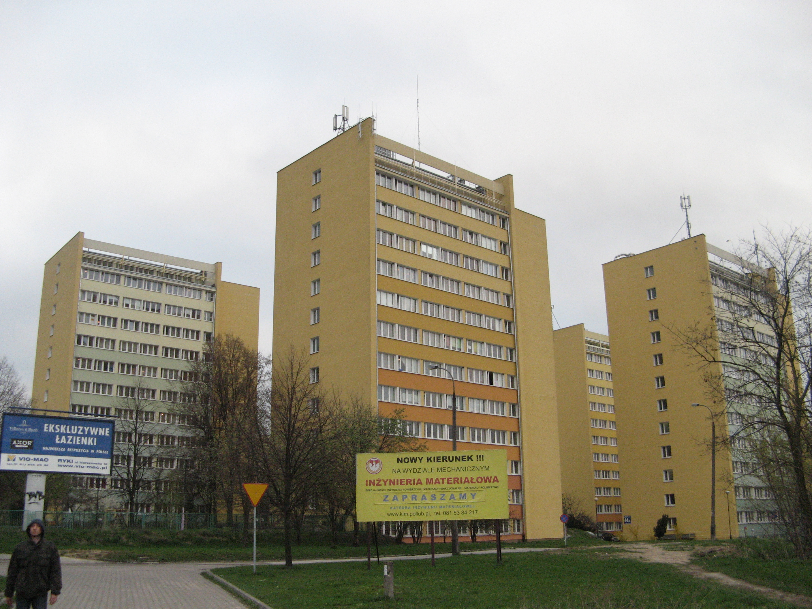 Lublin University of Technology